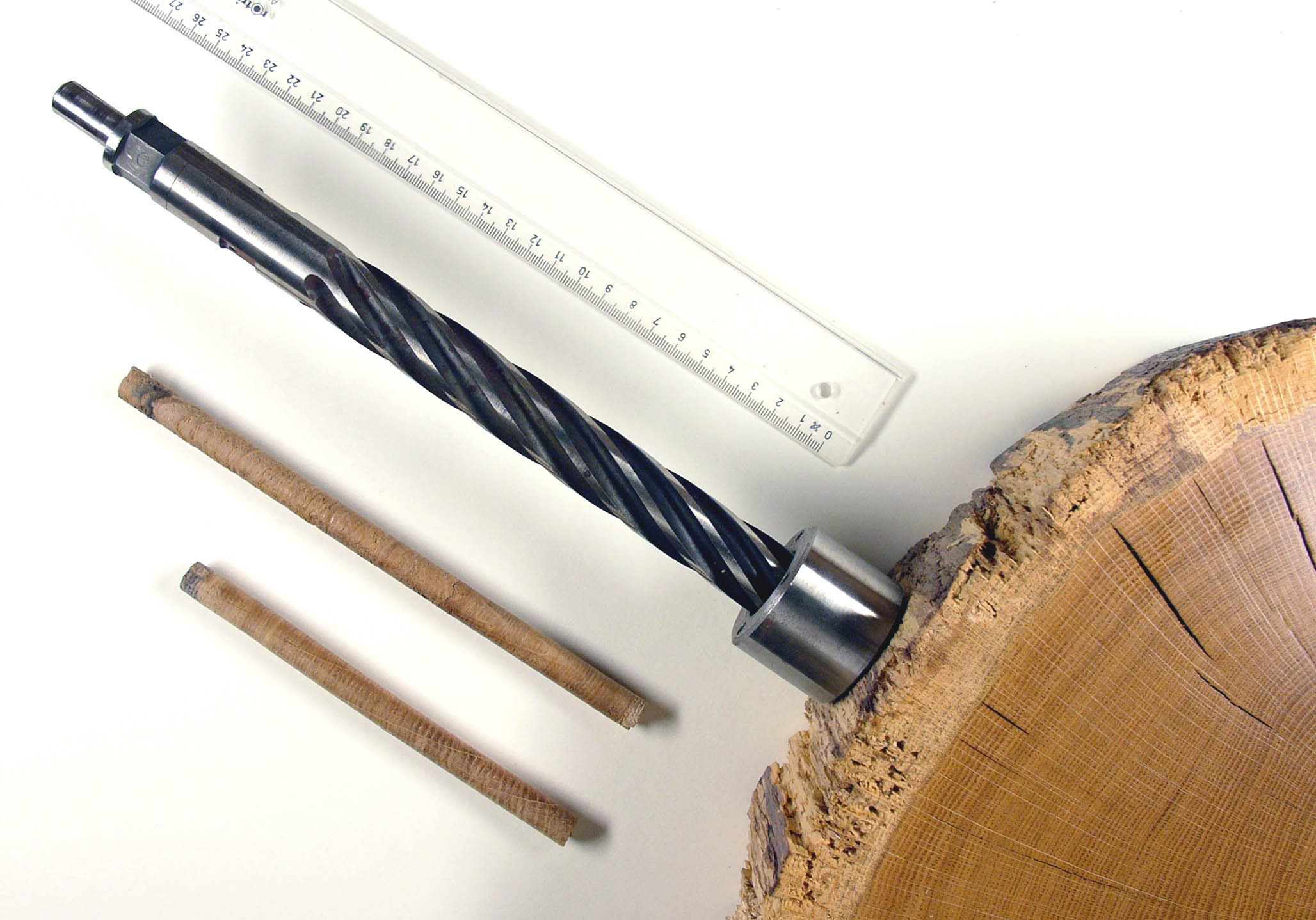 Drill to take samples for dendrochronology from trees